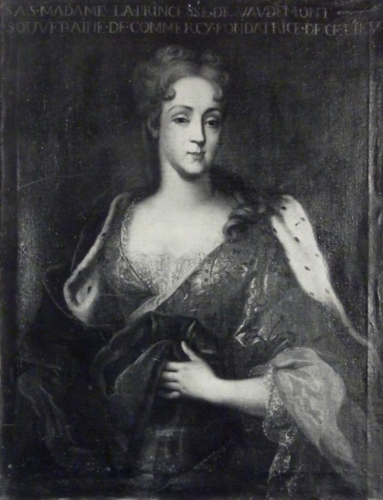 Anne Élisabeth of Lorraine (1649-1714), HSH The Princess of Vaudémont, Sovereign Princess of Commercy